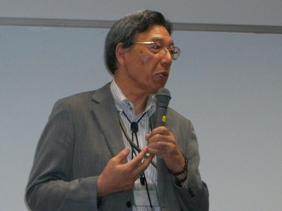 Kōji Sakamoto, Professor of the Graduate School of Regional Policy Design, Hosei University, gave a lecture at Tokyo Small and Medium Enterprises University in Higashiyamato City, Tōkyō Metropolis on August 2, 2013.